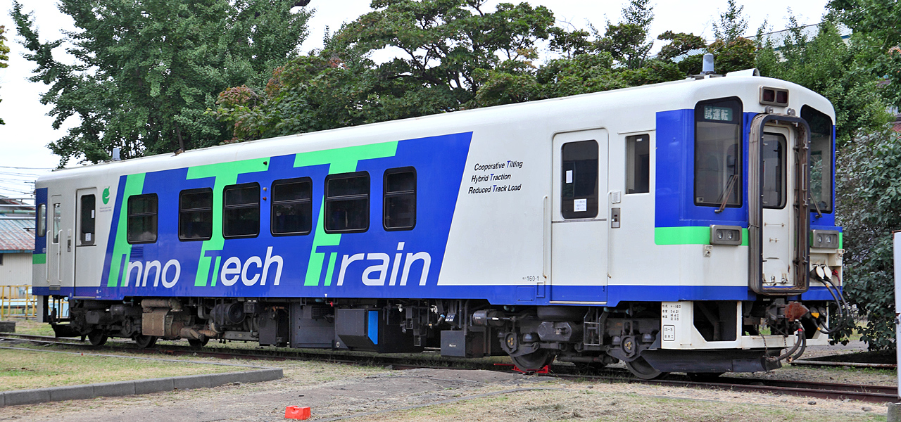 JR Hokkaido Kiha 160 hybrid DMU car at Naebo Works open day